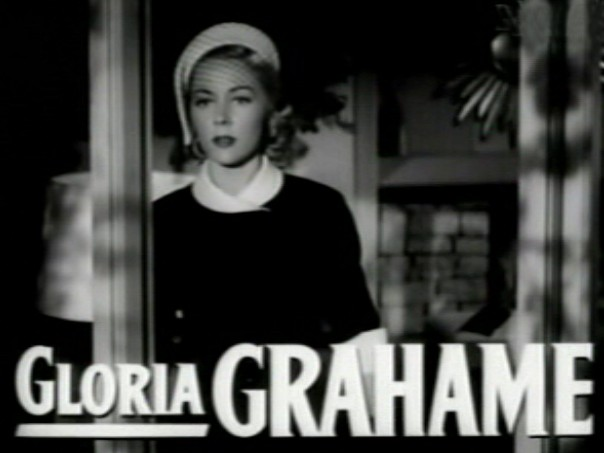 Cropped screenshot of Gloria Grahame from the trailer for the film The Bad and the Beautiful.